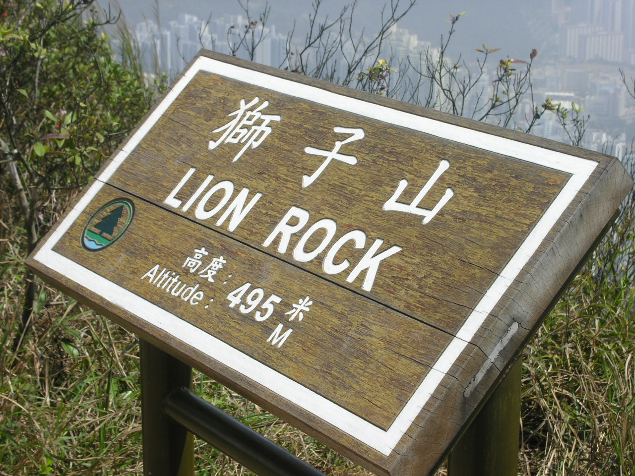 This is a board that in the top of the Lion Rock at Hong Kong, and the background is Kowloon. It was taken by my digital camera.